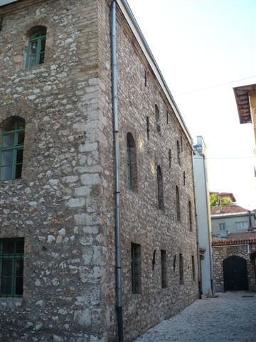 Old Synagogue in Sarajevo